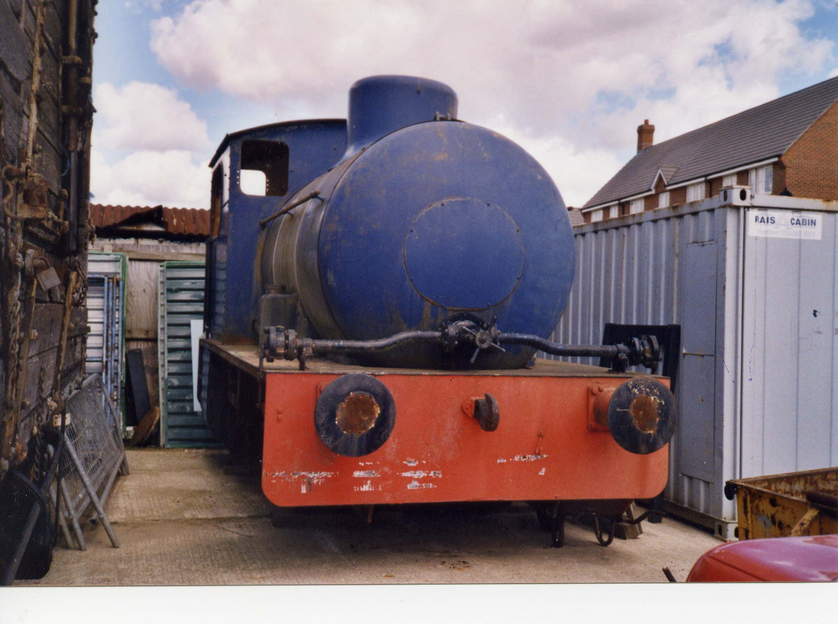 Bagnall 0-4-0 fireless steam locomotive "Huntley & Palmers No.1" on the Cholsey & Wallingford Railway at Wallingford, Oxfordshire, England in 2005. Built by W. G. Bagnall of Stafford, England in 1932, works number 2473.